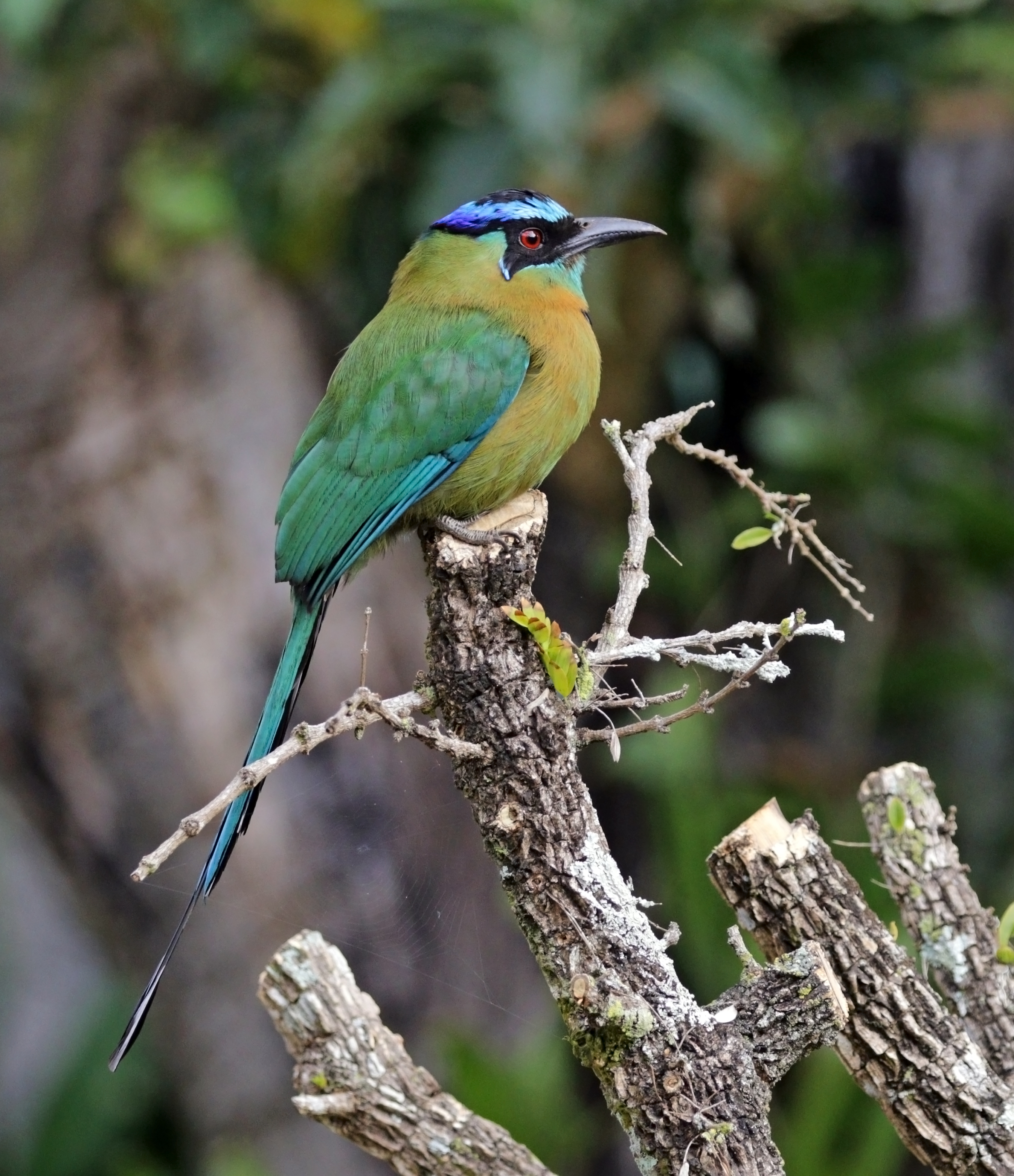 Lesson's motmot (Momotus lessonii lessonii), Heredia, Costa Rica